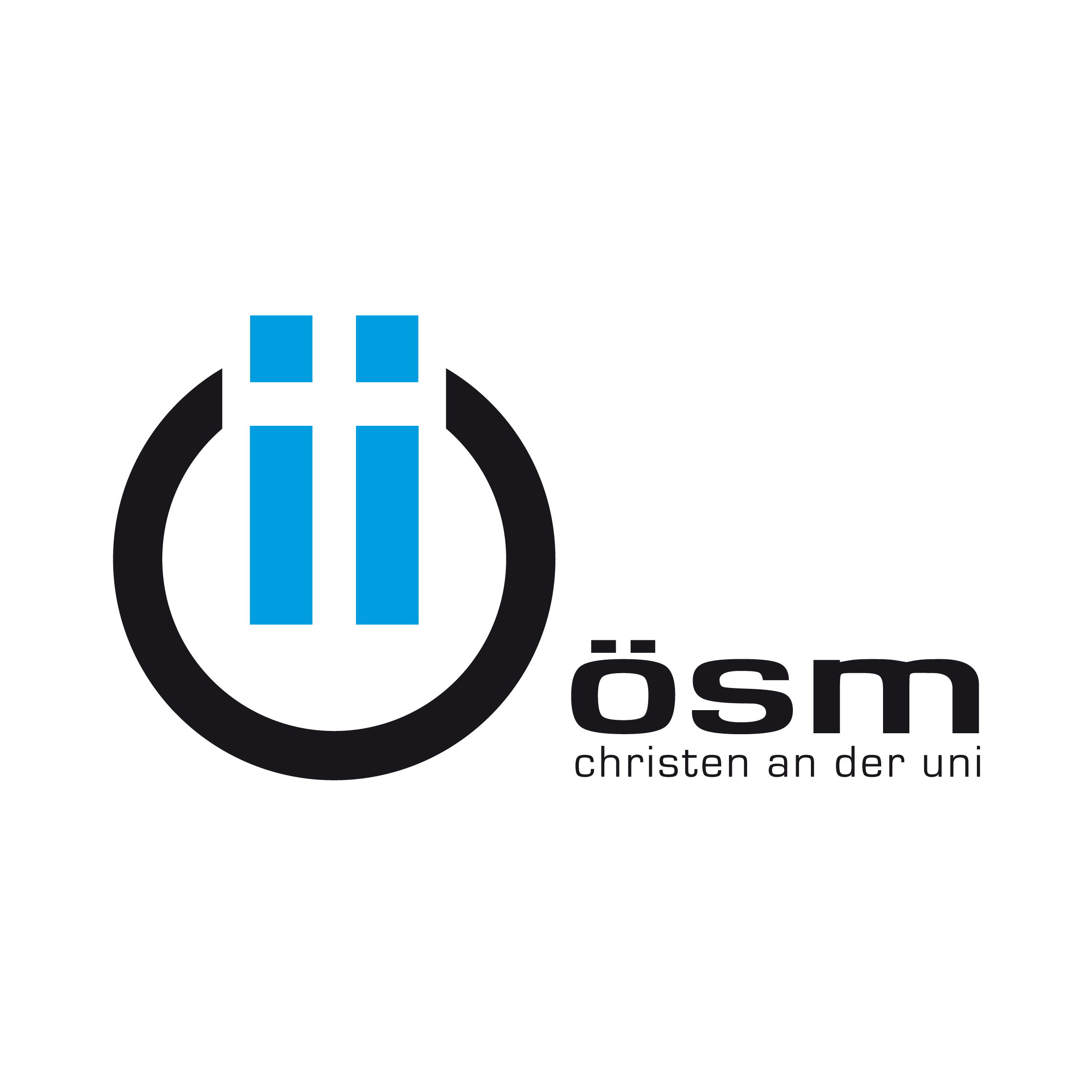 Logo ÖSM